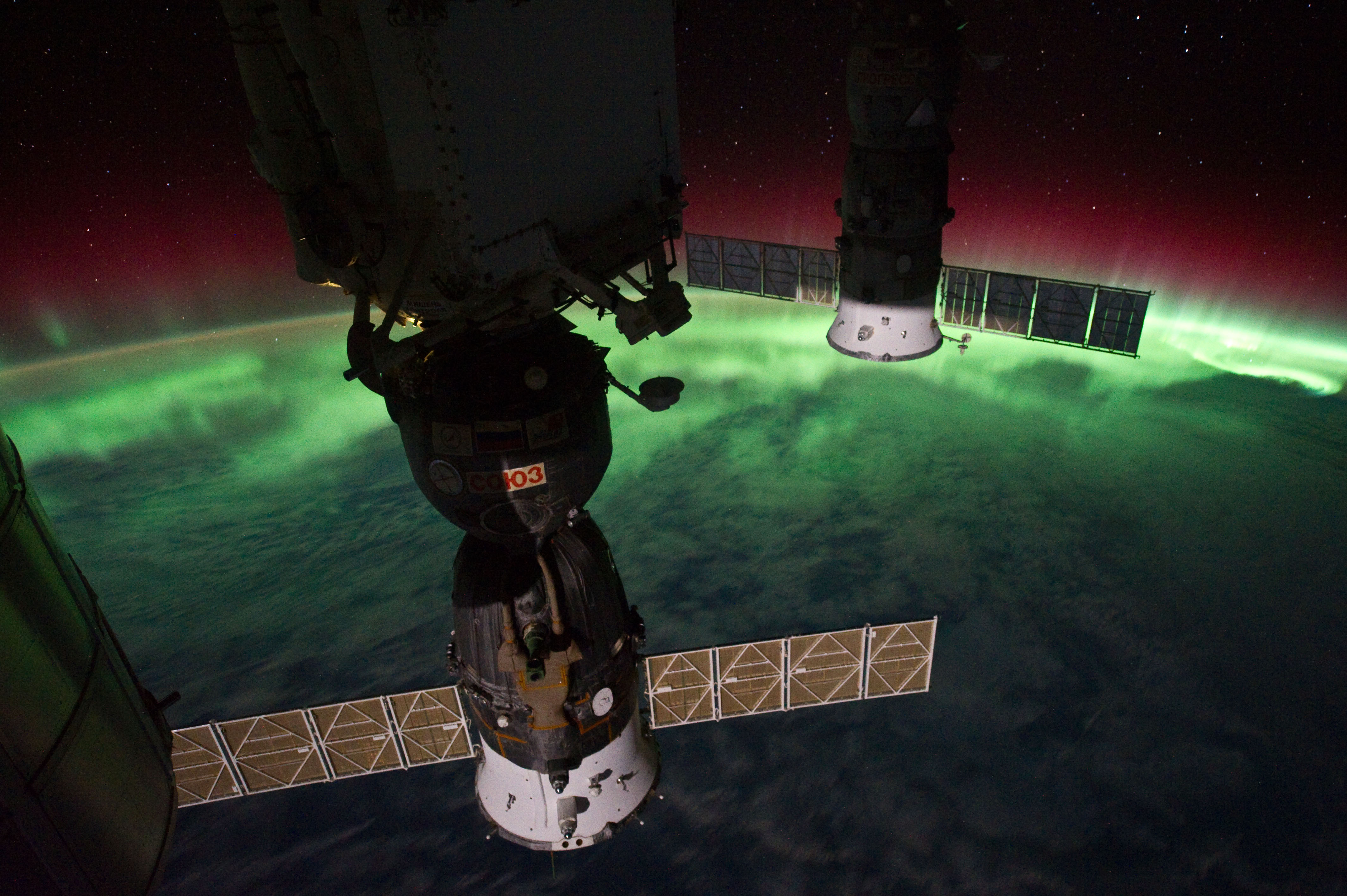 This is one of a series of night time images photographed by one of the Expedition 29 crew members from the International Space Station. It features Aurora Australis, seen from a point over the southeast Tasman Sea near southern New Zealand. The station was located at 46.65 degrees south latitude and 169.10 degrees east longitude.